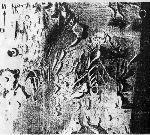 Sketch of the lunar city Wallwerk, made by Franz von Gruithuisen